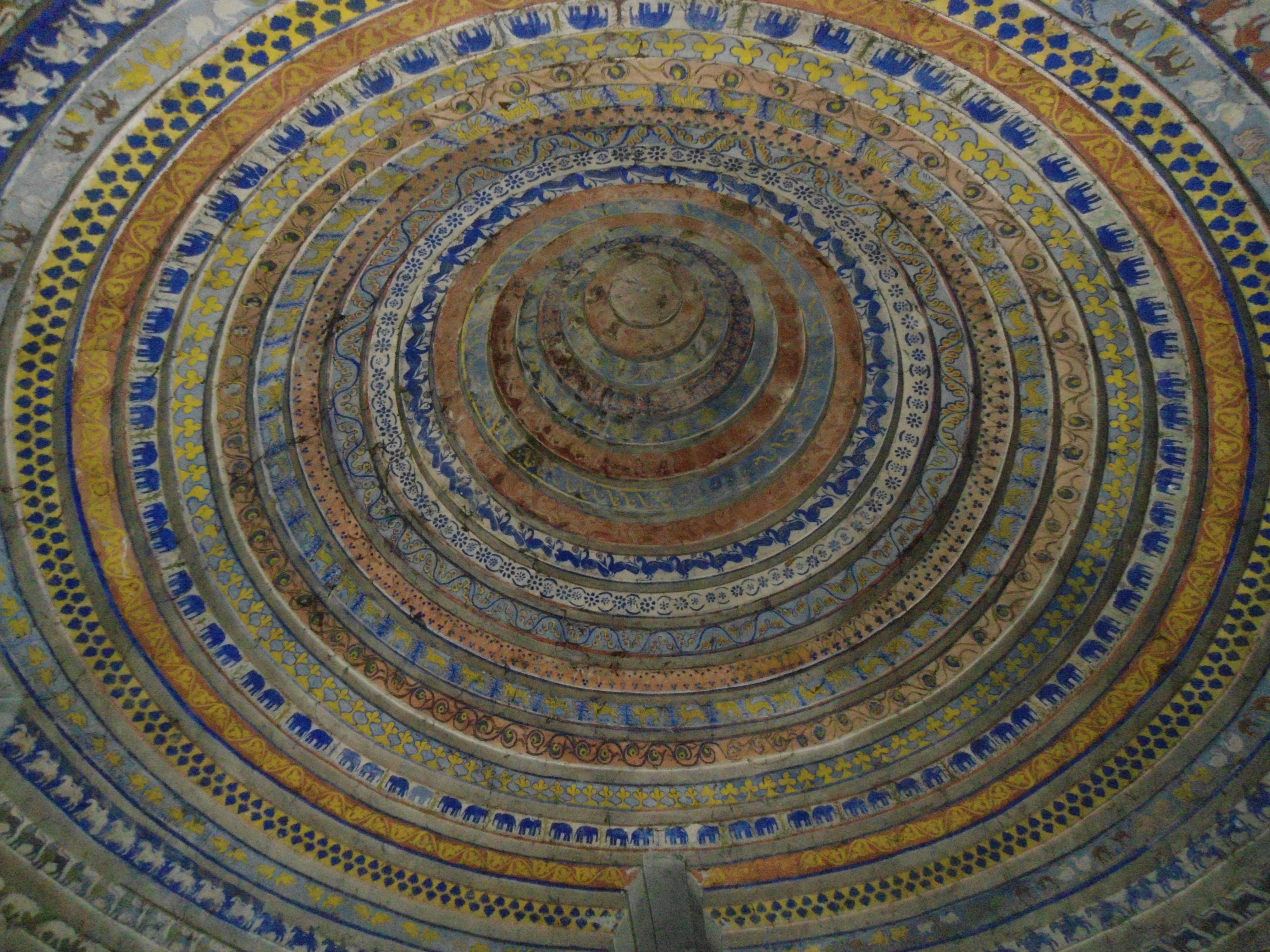 Art work inside Varahanath Temple